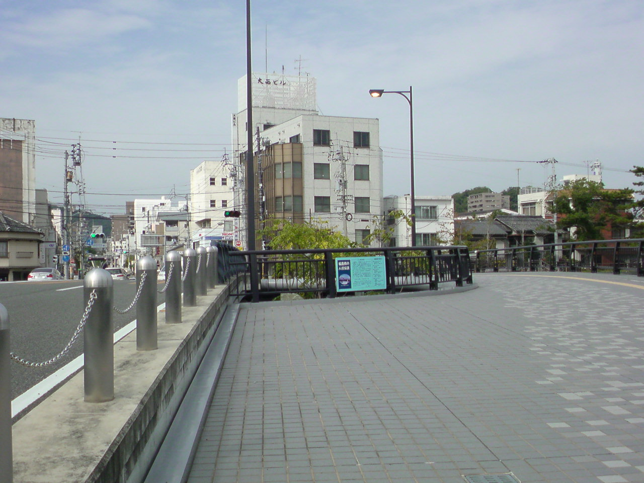 Fukushima bridge, at Tokushima city, Tokushima pref., Japan; it has a "human pillar (Human sacrifice, 人柱 (HIto-bashira))" legend and its sidewalk is widely curved at the human pillar existed.